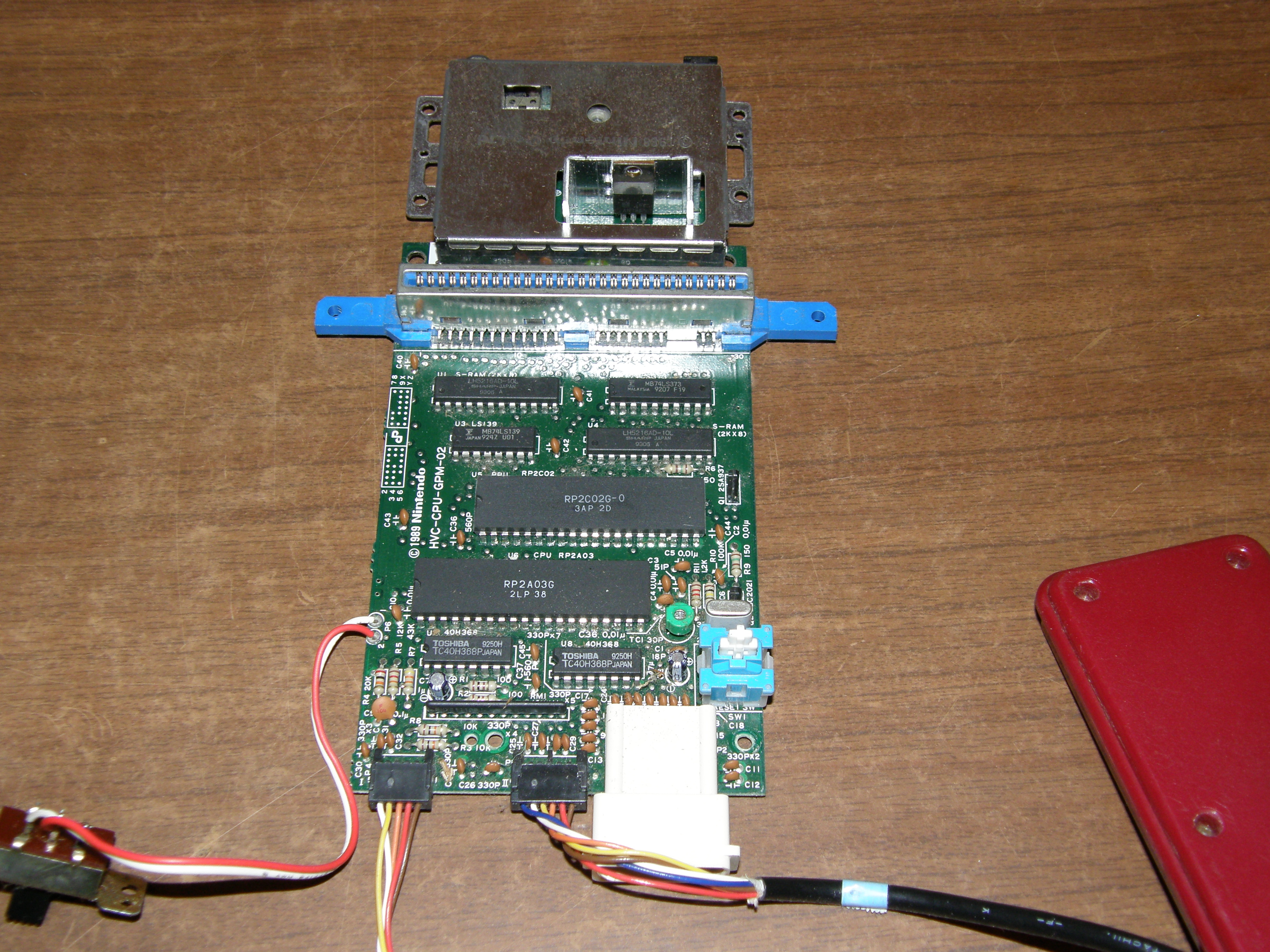 Famicom hardware